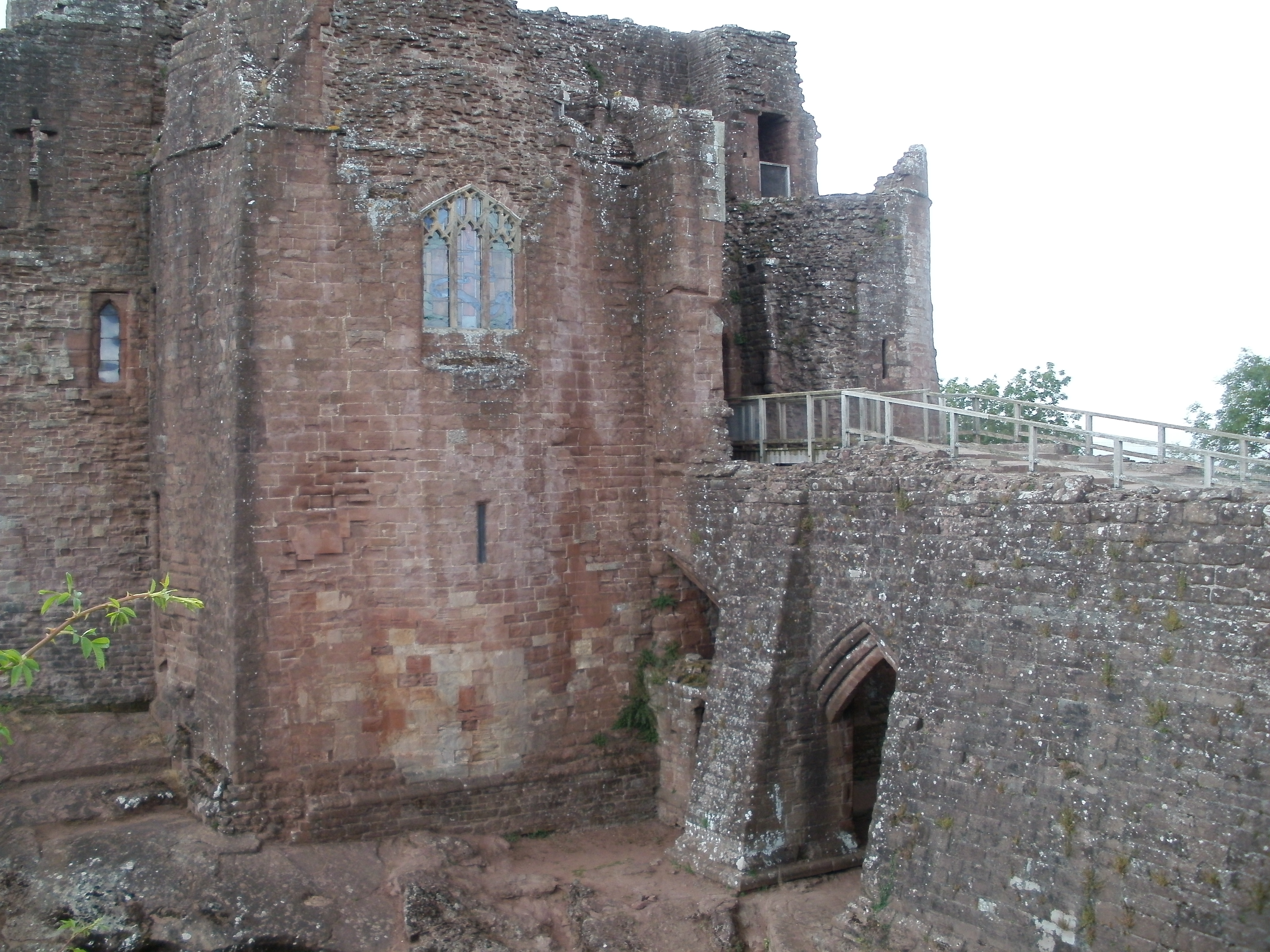 The gatehouse of Goodrich Castle.